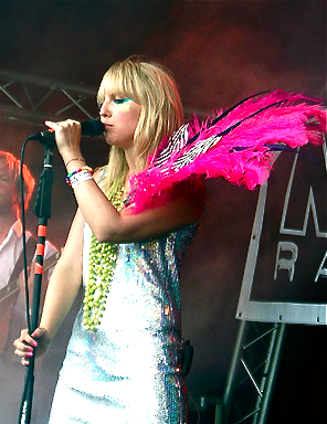 Photo of Polly Scattergood performing in Hackney, London, England in July 2009 at Shoreditch Festival. Originally posted on Flickr